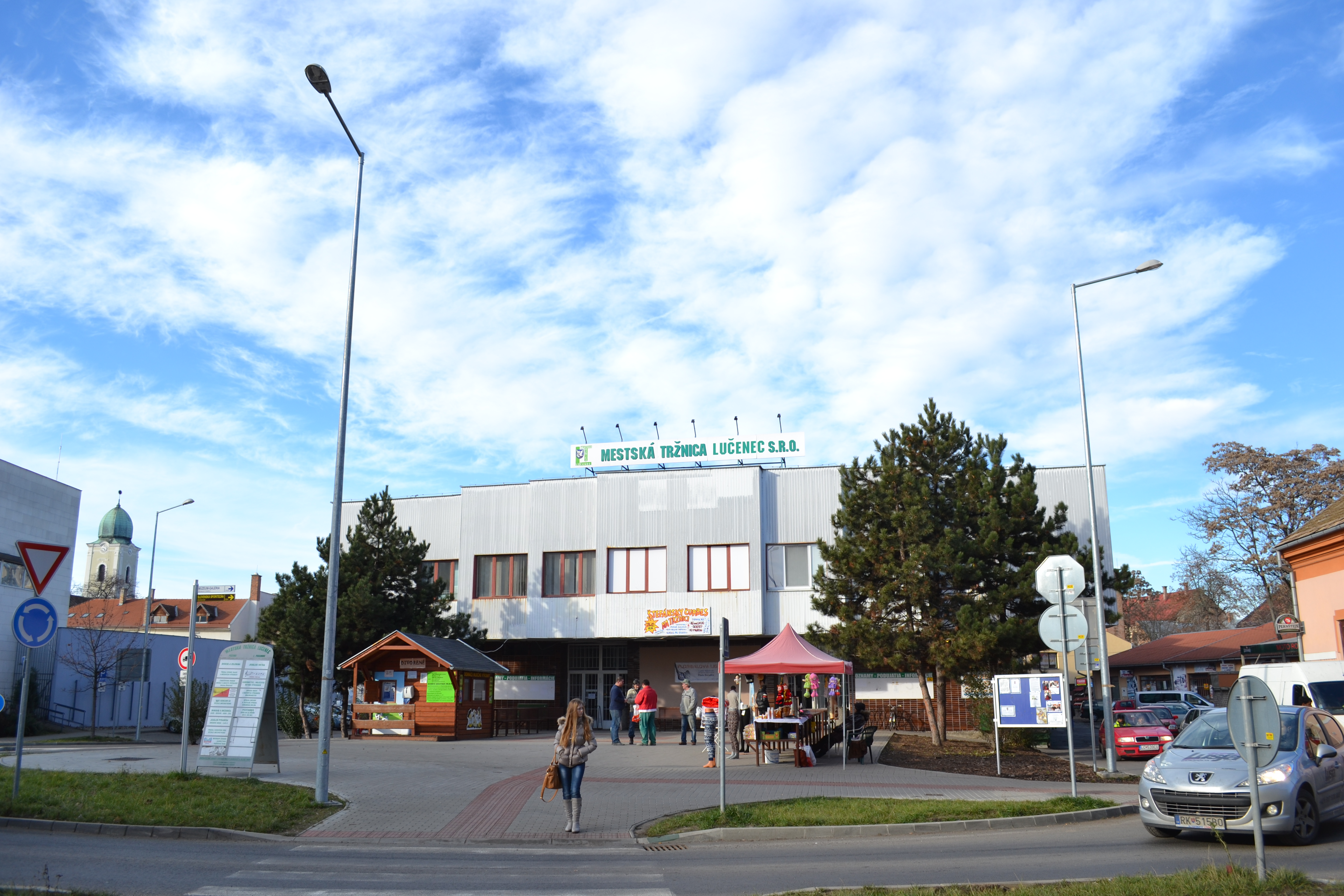 City ​​Market, Vajanský Street 11, Lučenec